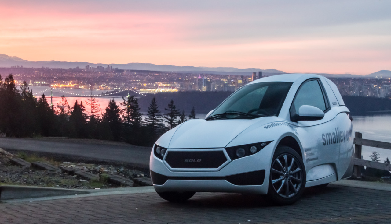 The 2017 EMV SOLO at Cypress Mountain, Vancouver, B.C.